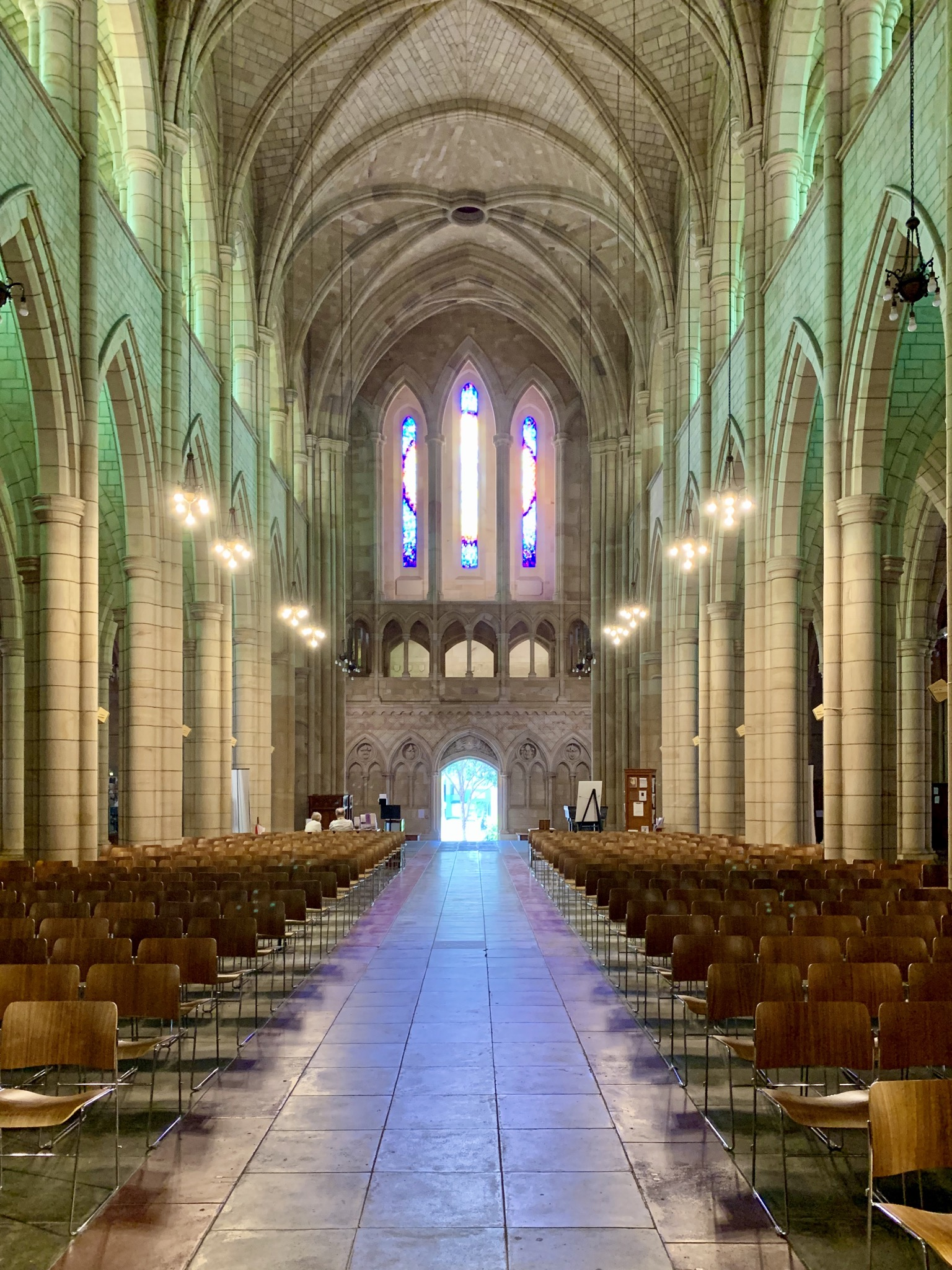 Nave at St John's Cathedral, Brisbane, 2020